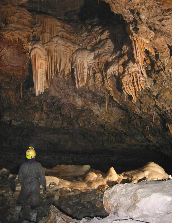 The Hall of the Mountain King, Ogof Craig a Ffynnon, South Wales. Photo by Daniel Jackson, who has released the image under the GNU FDL. Subject in the photo is the submitter.